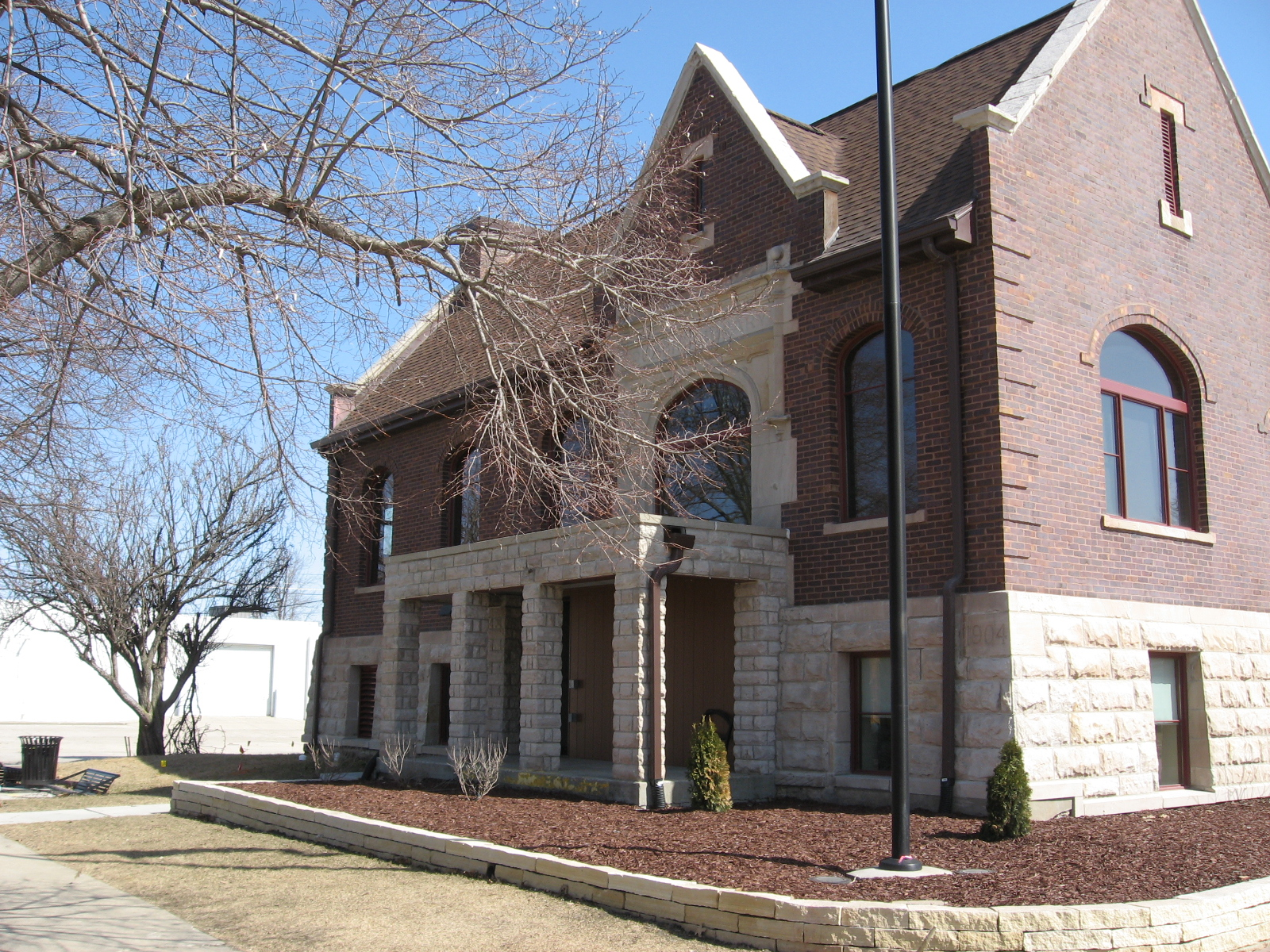 Photo of the Marengo Public Library